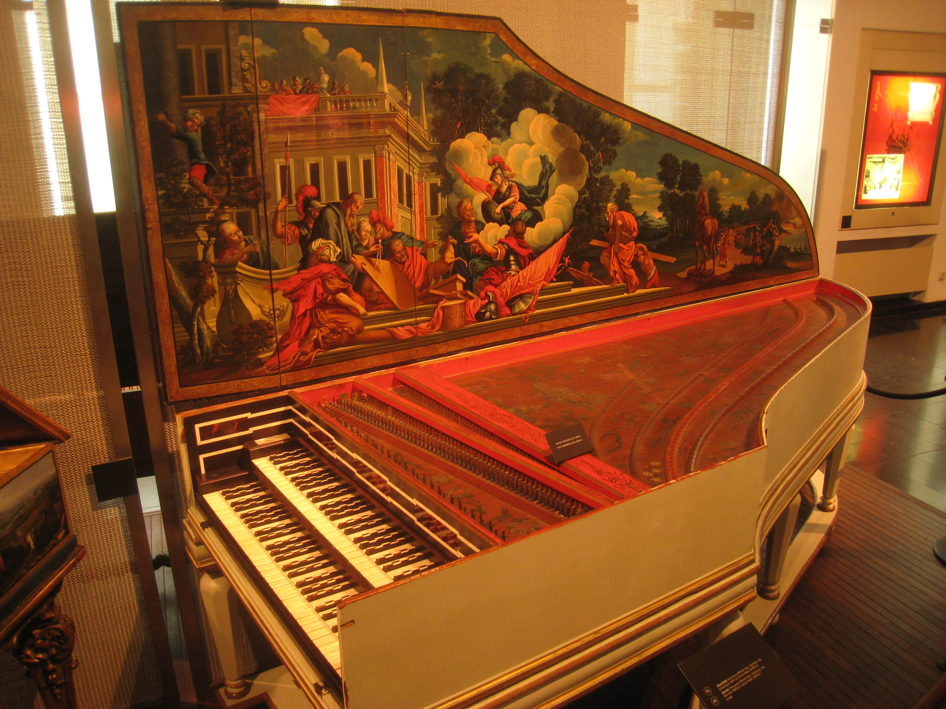 Keyboard instrument in the Musical Instrument Museum, Brussels, Belgium. Hieronymus Albrecht Hass, Hamburg, 1734 - clavecin.